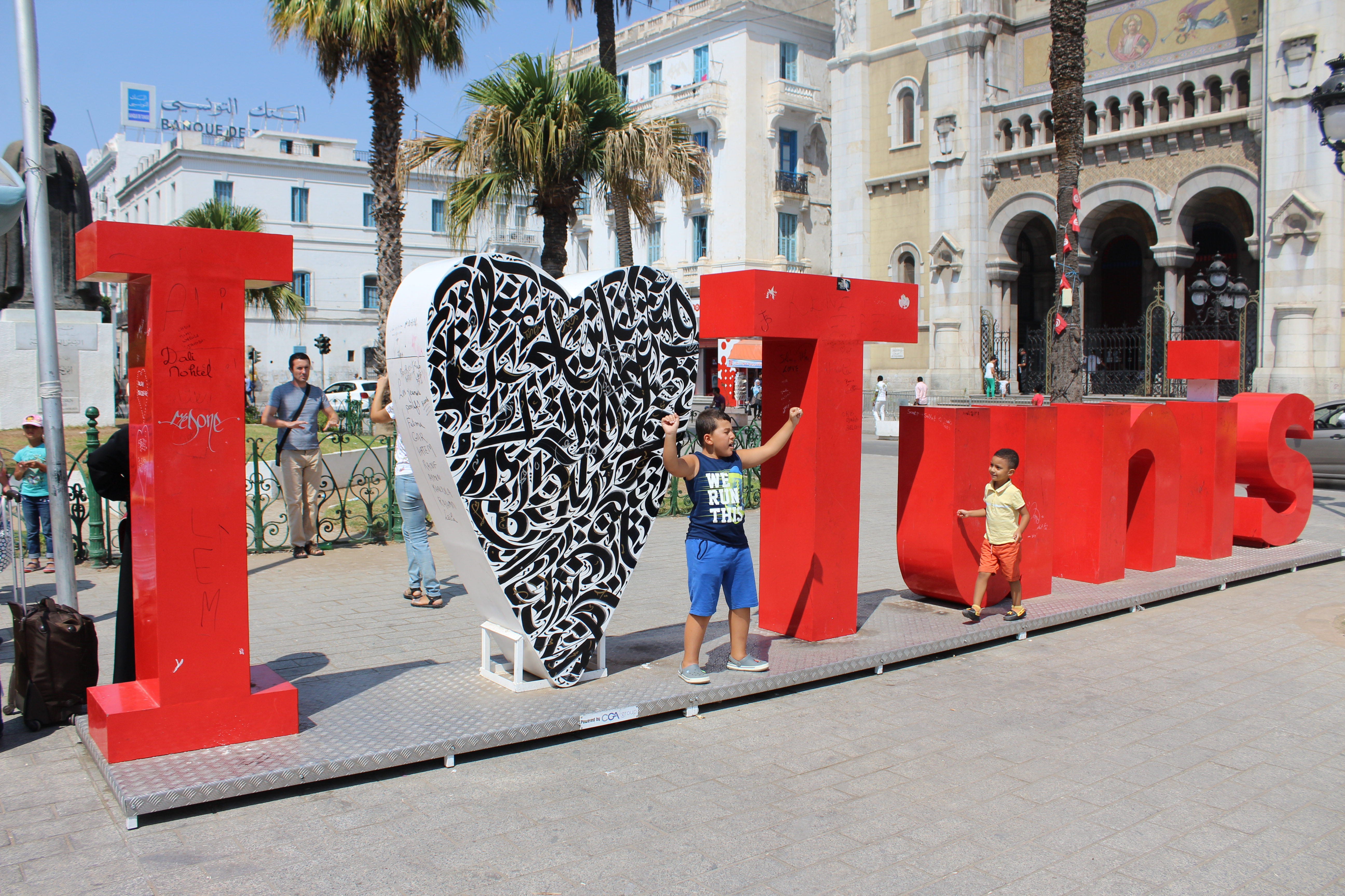 Tunis, Tunisia